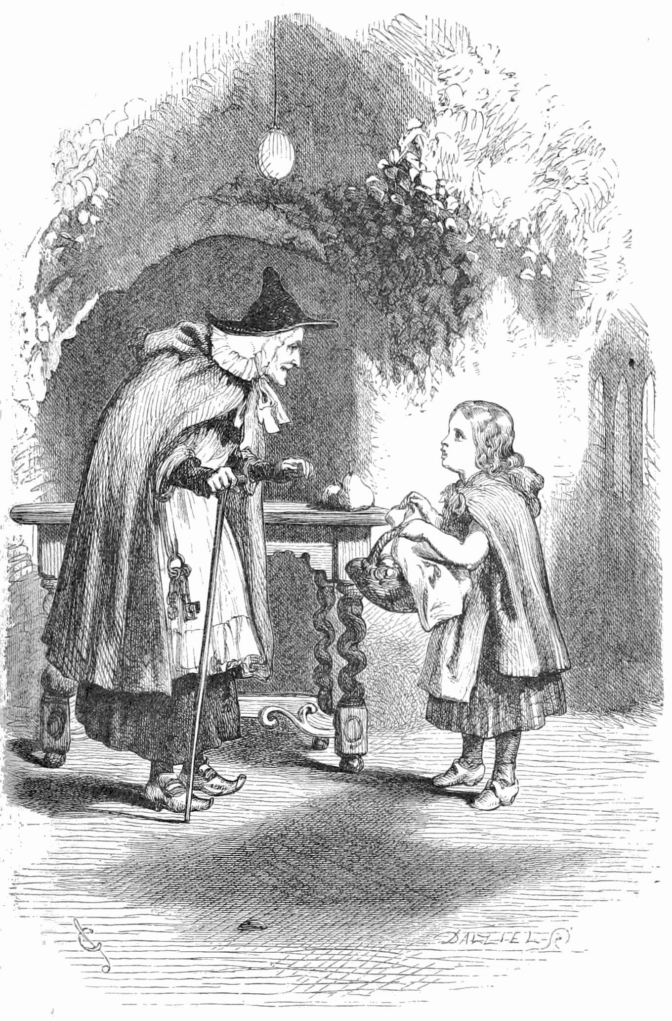 Illustration for a fairy tale by Madame d'Aulnoy